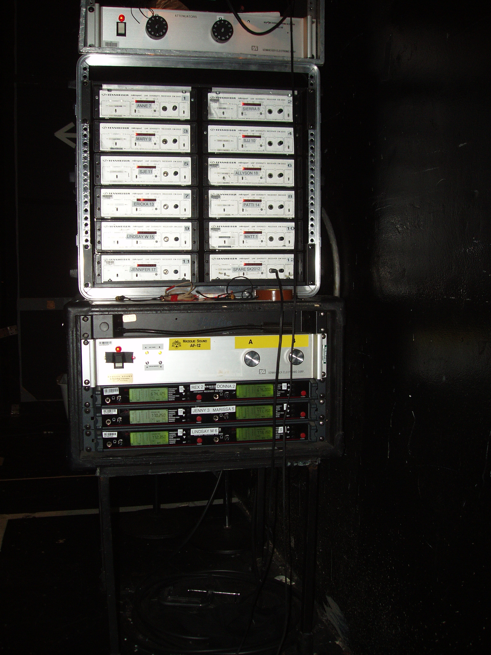 Picture of a mic rack for a show. Taken by User:Lekogm November 27th, 2004